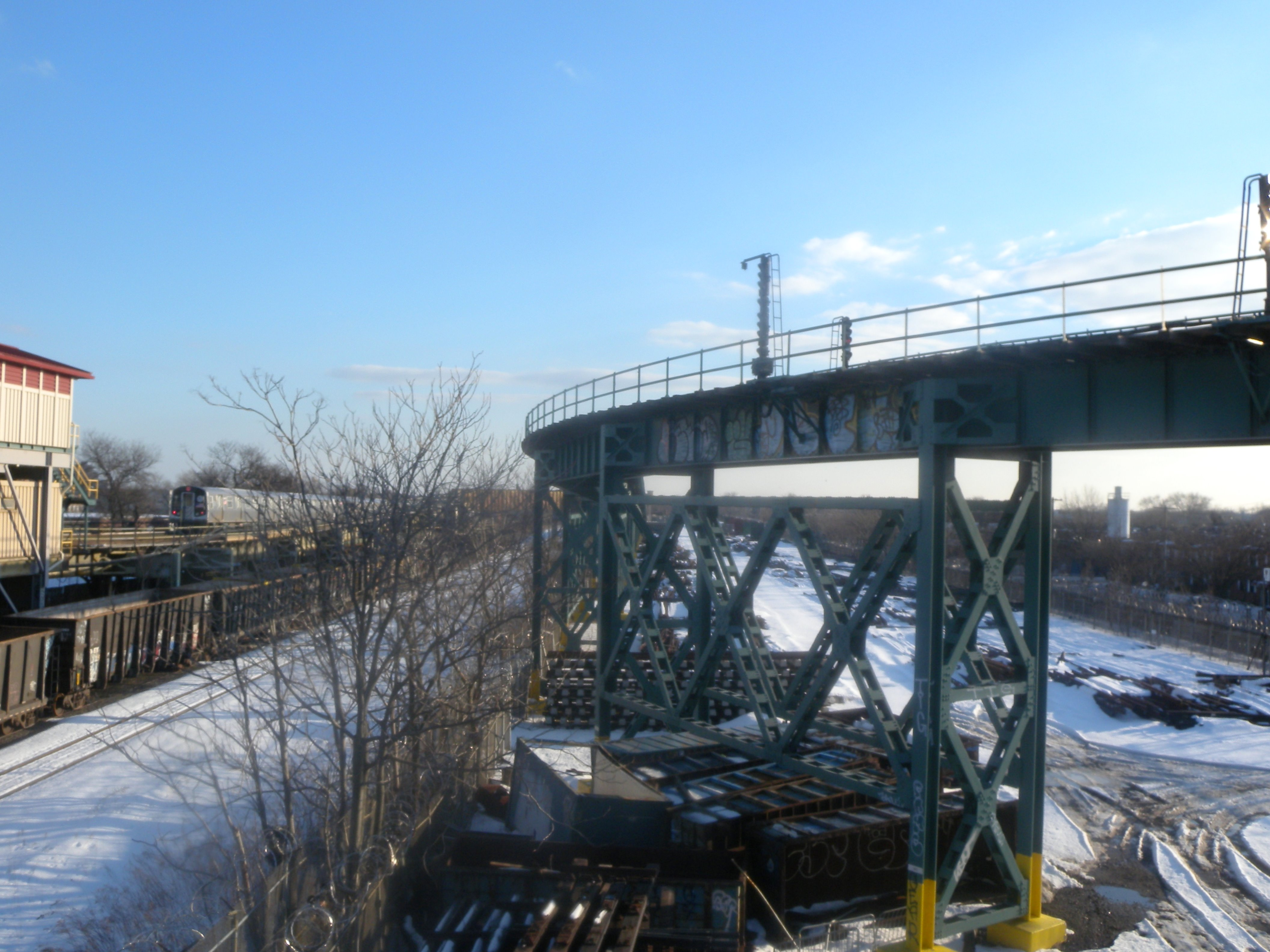 Looking south at junction between Canarsie and Livonia lines on a sunny afternoon.